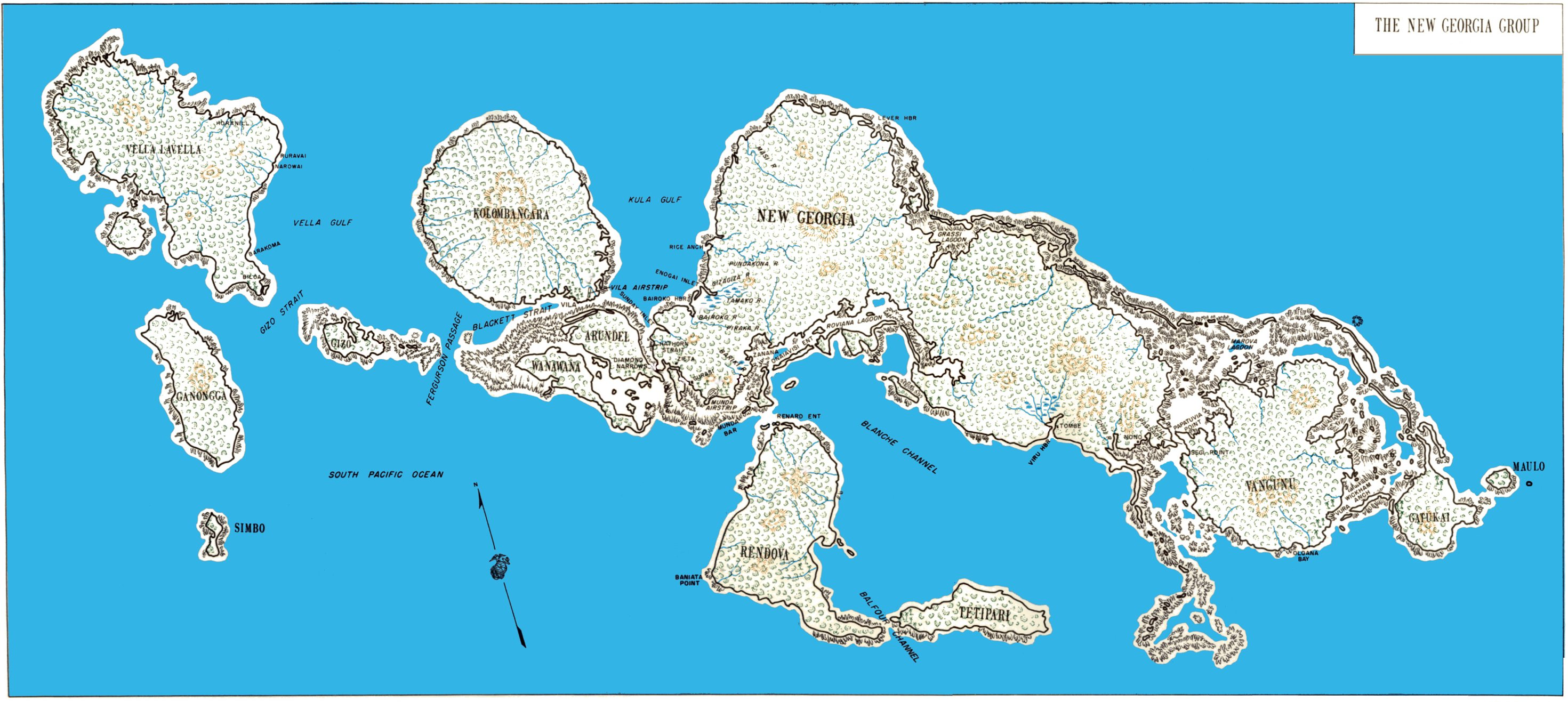 Description: New Georgia Group - Salomon Islands, Western Province Source: based on the Public Domain map USMC-M-CSol-2.jpg on a collaboration of the Post Work by User:W.wolny